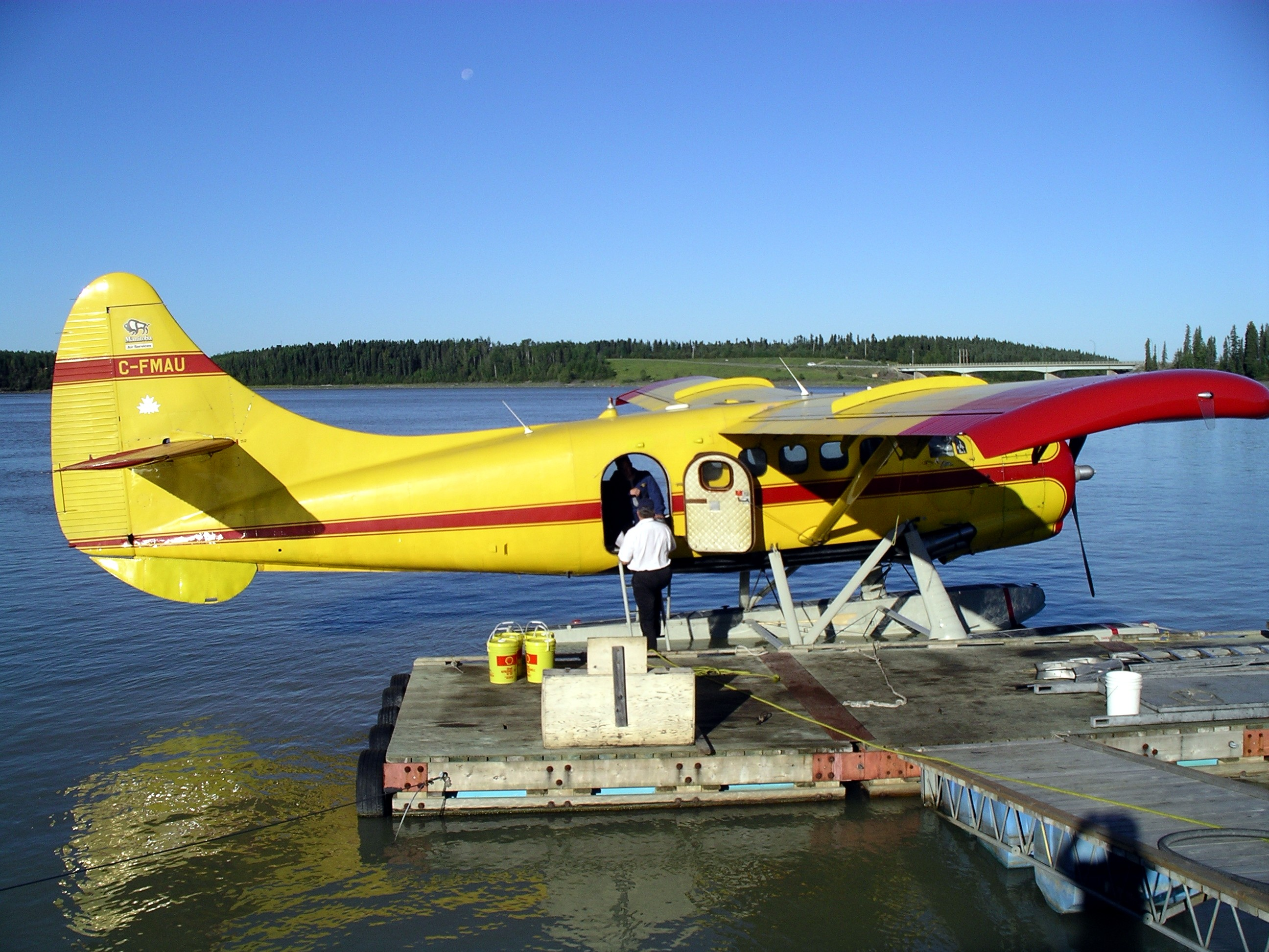 Aircraft getting ready for departure